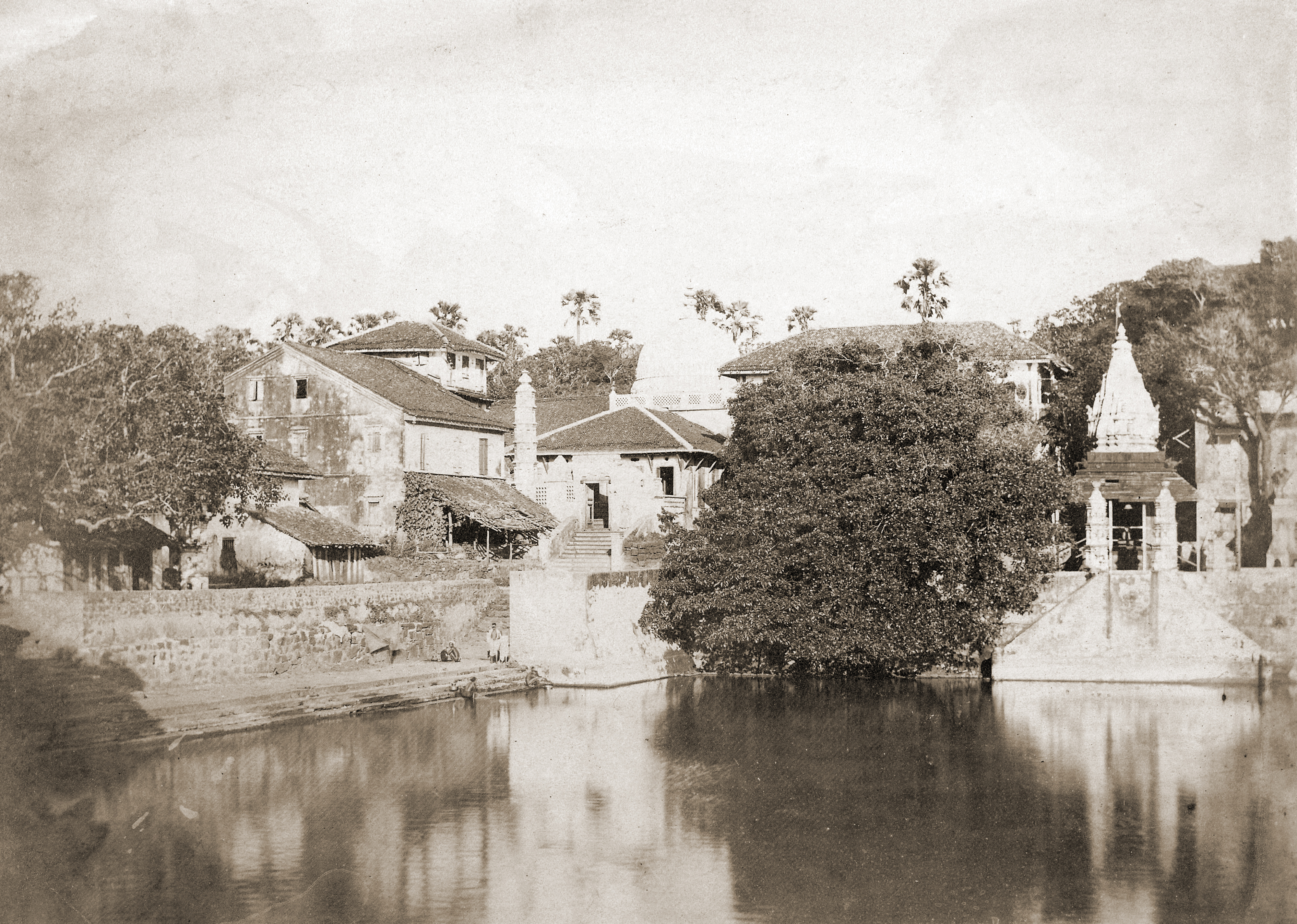 Banganga Tank and Walkeshwar Temple, Bombay, c 1855. (Photographic print)